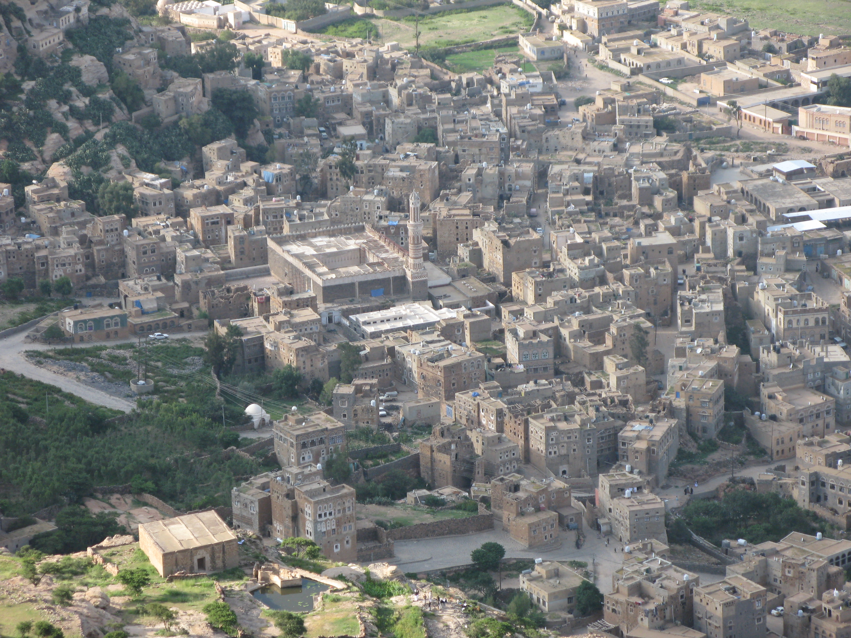 Shibam Kawkaban, Yemen